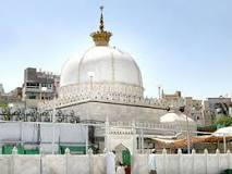 Ajmer sharif Dargah in Ajmer